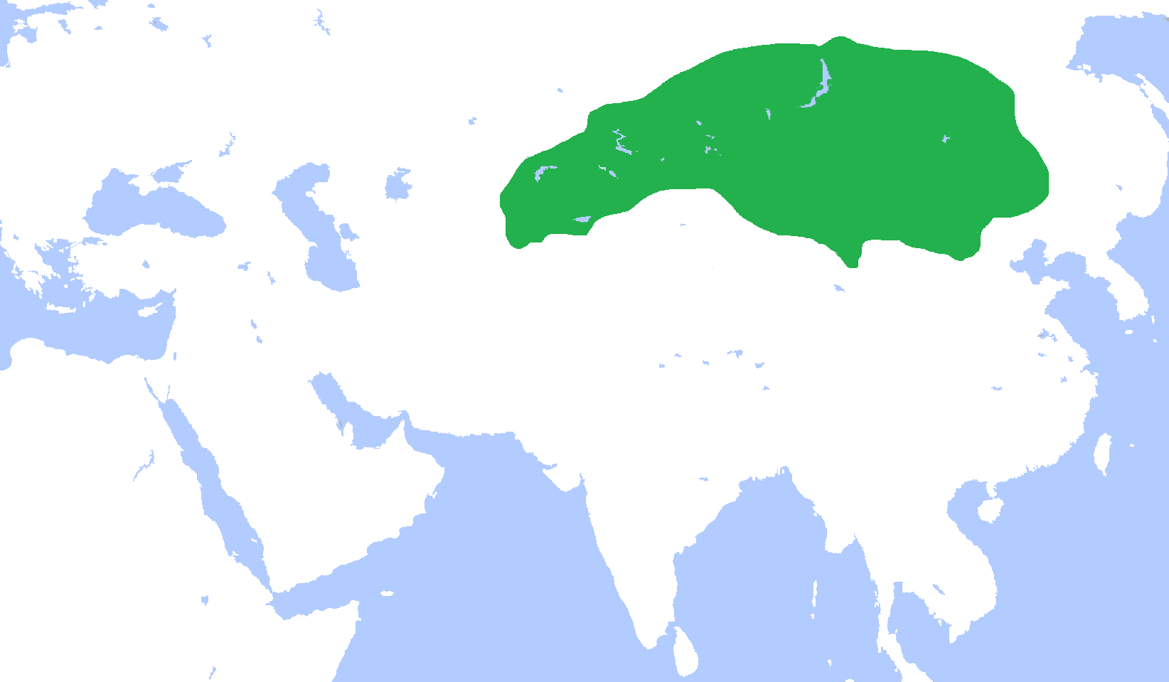 Approximate map of Second Turkic Khaganate.